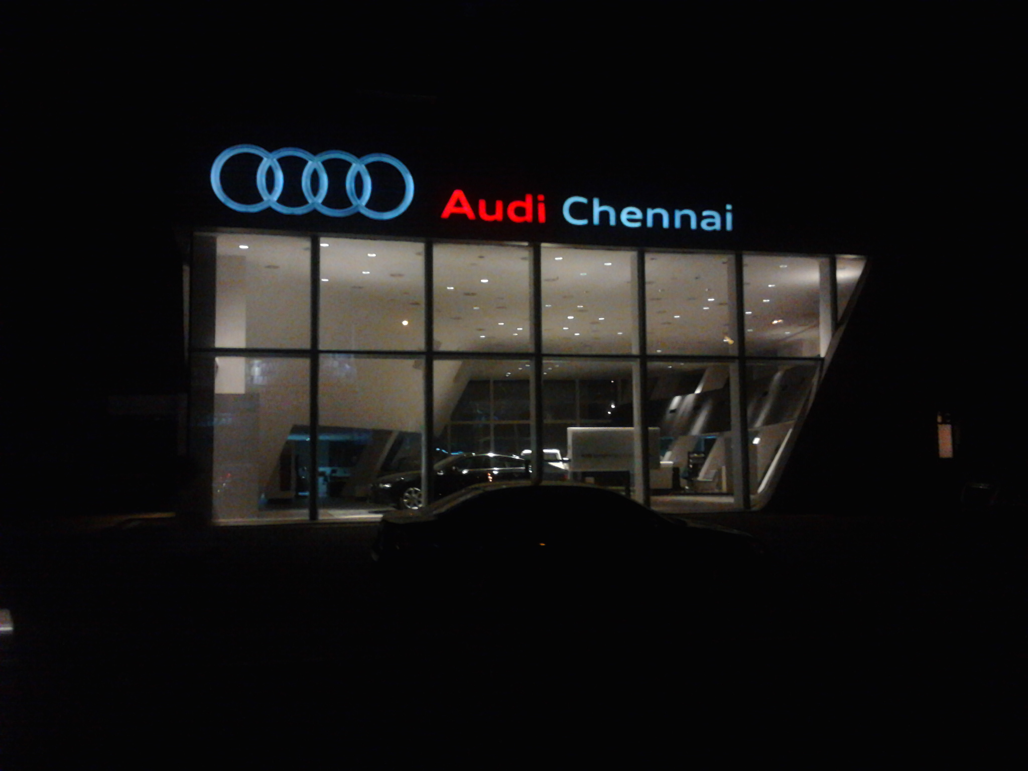 Photoed using Samsung Wave 525.